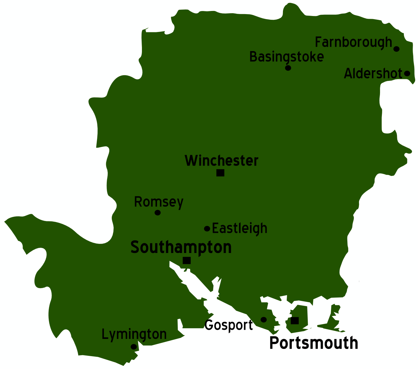 Map of Hampshire Source: :Image:UK map.svg map: England Map of: England